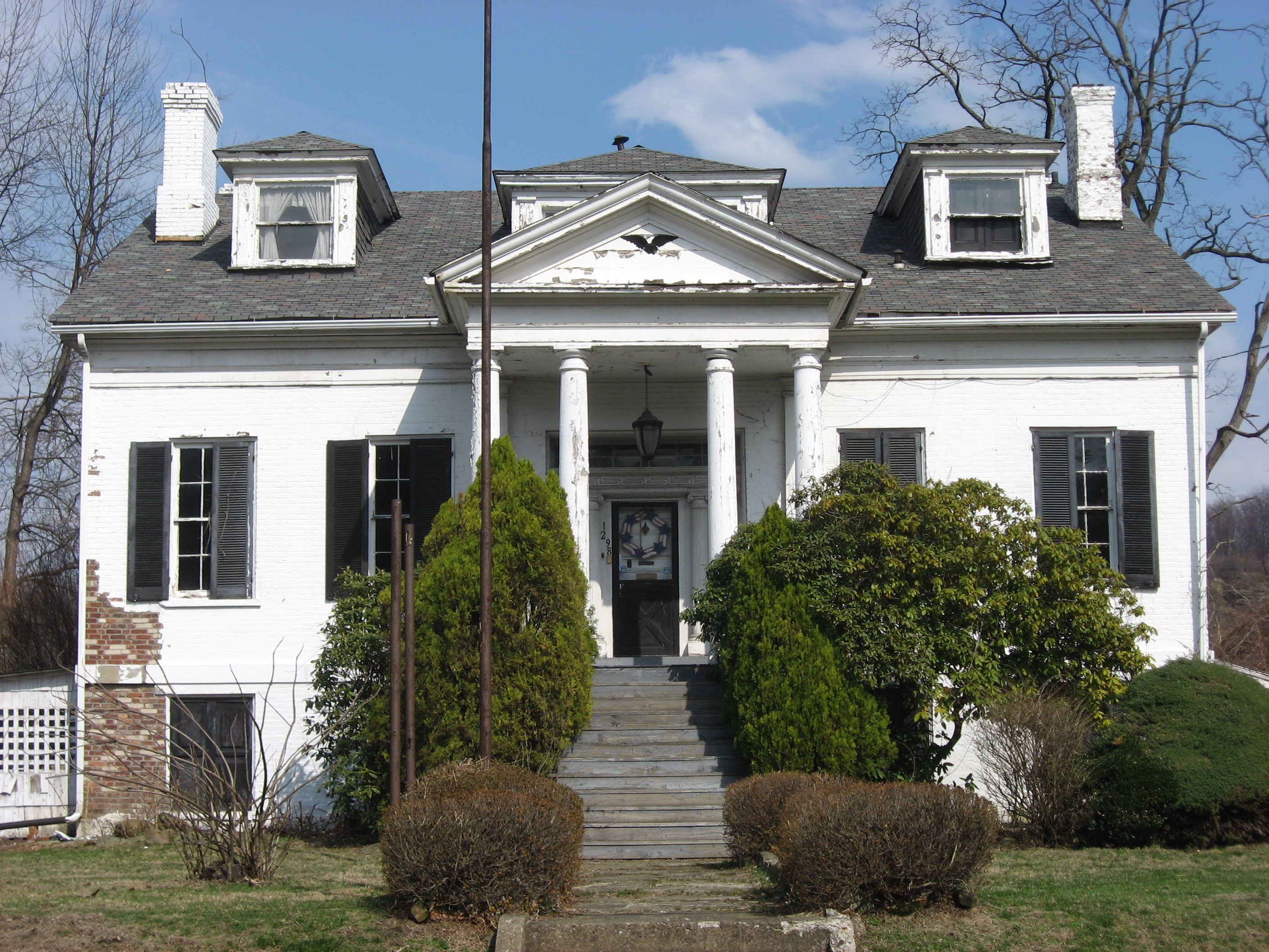 Street view of the William B. Dunlap Mansion, located at 1298 Market Street in Bridgewater, Pennsylvania, United States. Built in 1840, the Greek Revival house is listed on the National Register of Historic Places, and it is a part of the Register-listed Bridgewater Historic District.